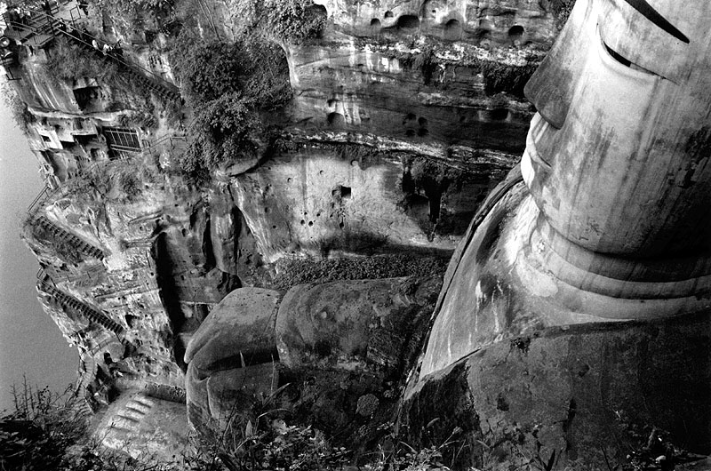 Leshan Giant Buddha